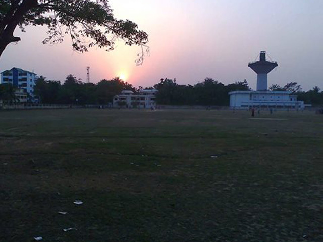 মৌলভীবাজার সরকারী উচ্চ বিদ্যালযয়ের সু-বিশাল মাঠ।